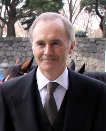 Tim Hitchens, Ambassador to Japan, rode in the Imperial horse-drawn carriage to attend the Ceremony of the Presentation of Credentials in Chiyoda Ward, Tōkyō Metropolis on December 21, 2012.